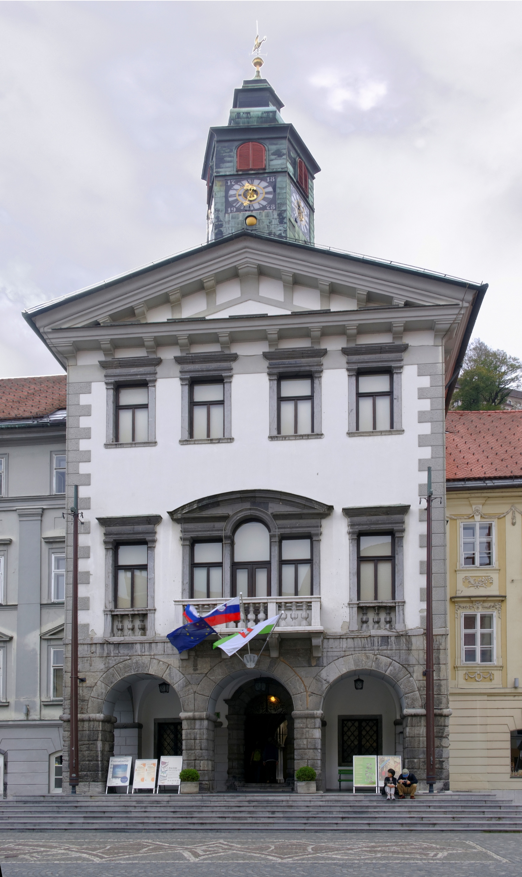 Slovenia, Ljubljana, Town hall